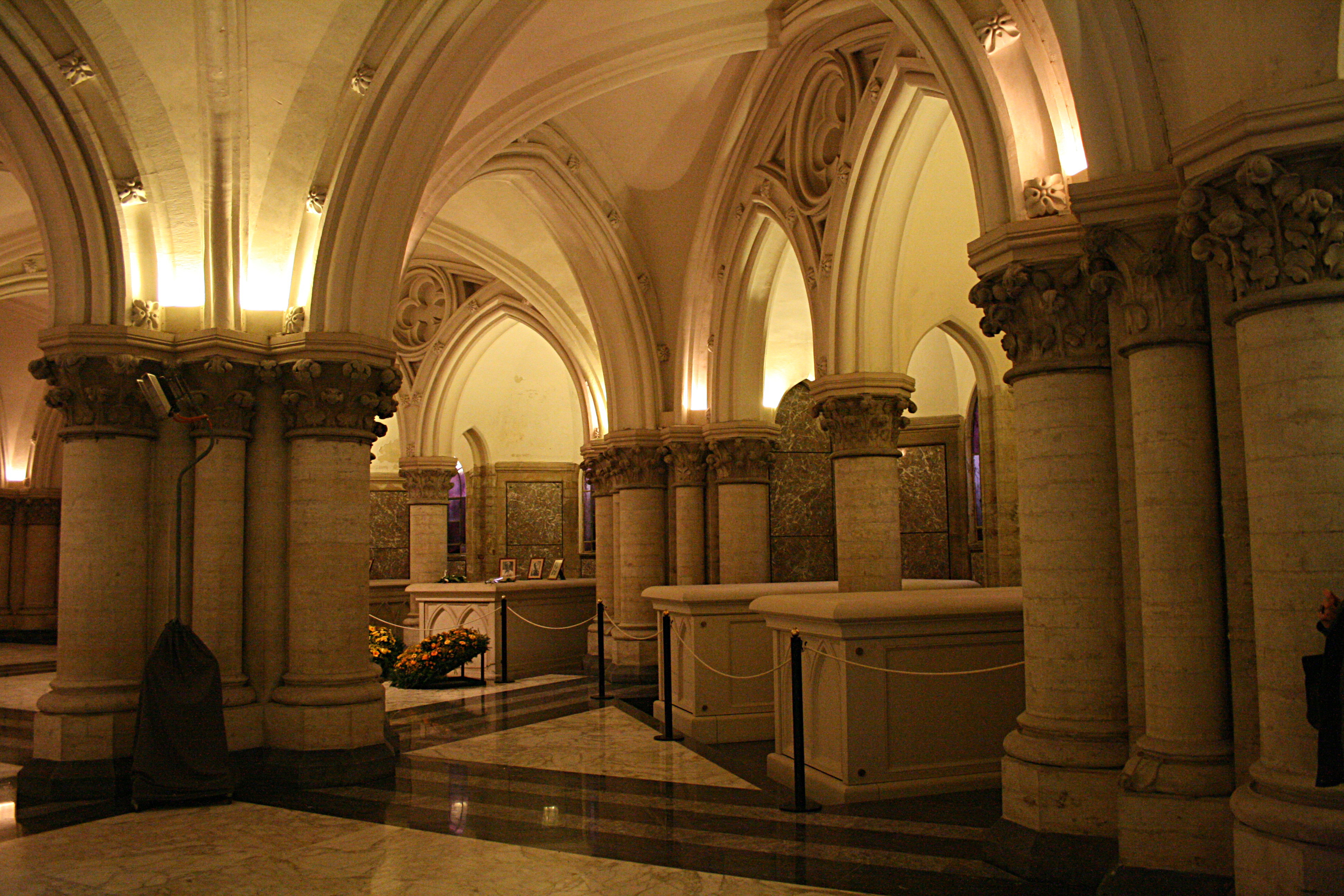 Royal Crypt in the church Notre-Dame at Laeken (Brussels), Belgium. Burial place of the Belgian sovereigns, their wives and some members of the Belgian royal family.